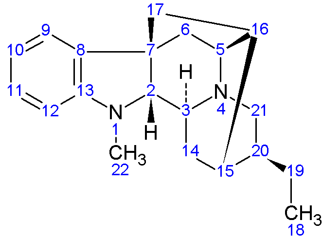 Structure of Ajmalan in conventional format and with conventional numbering: sites which are labelled only by numbers are carbon atoms.